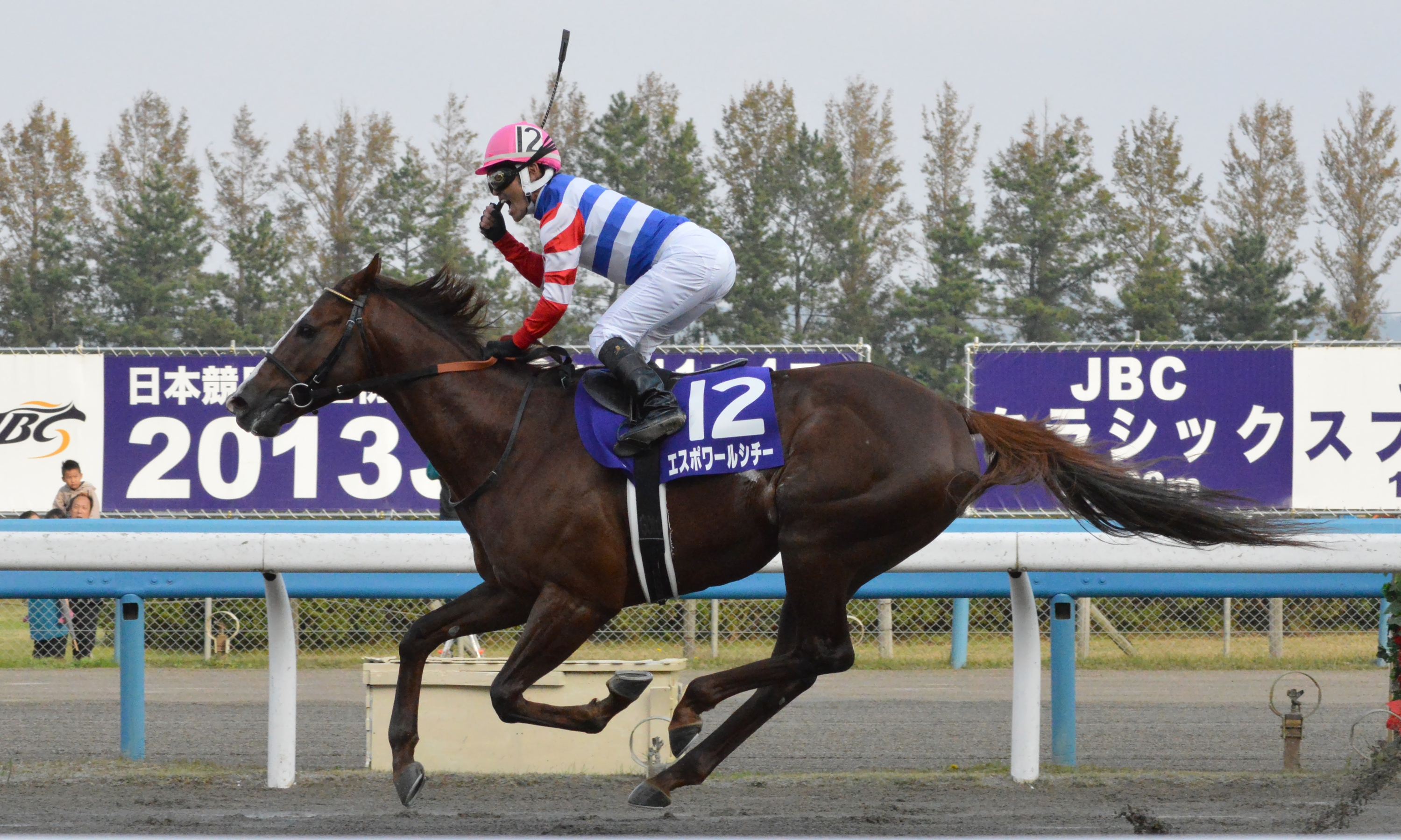 Japanese race horse Espoir City at Kanazawa racecourse. Kanazawa (JPN) 04 Nov 2013 JBC Sprint (Local Grade 1) (Dirt) (3yo+) 7f Sloppy RankHorse NameOddsAgeWgtTrainerJockey1stEspoir City (JPN)7/10FH89-0Akio AdachiHiroki Goto2ndDream Valentino (JPN)9/1H69-0Tadashi KayoMirco Demuro3rdSei Crimson (JPN)56/10H79-0Toshiyuki HattoriYasunari Iwata4th - 12th/omission